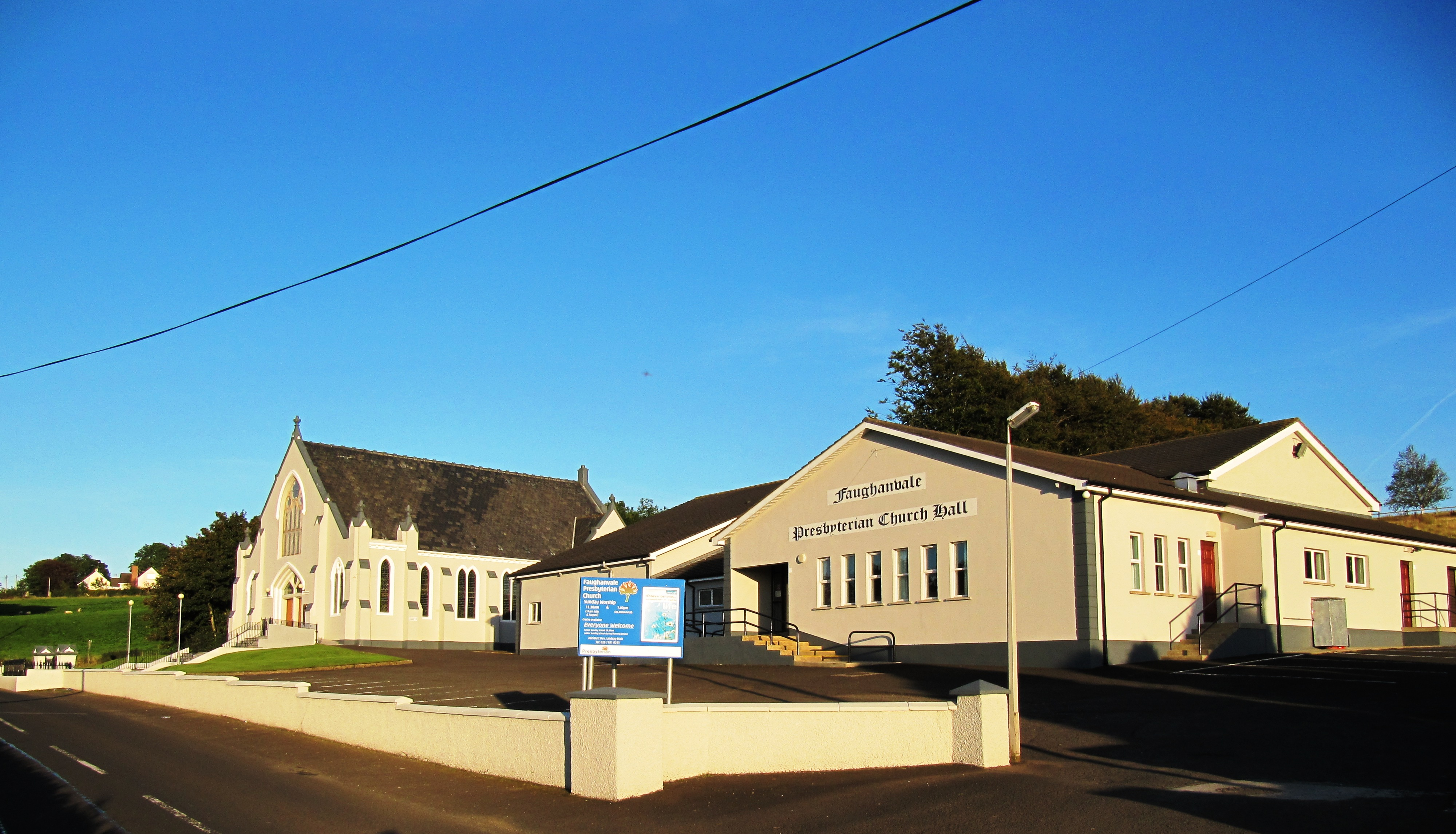 Faughanvale Presbyterian Church, Tullanee, Eglinton, County Londonderry. Replaced the former Tullanee Meeting House which sat in what is now the main graveyard adjoining the present church.